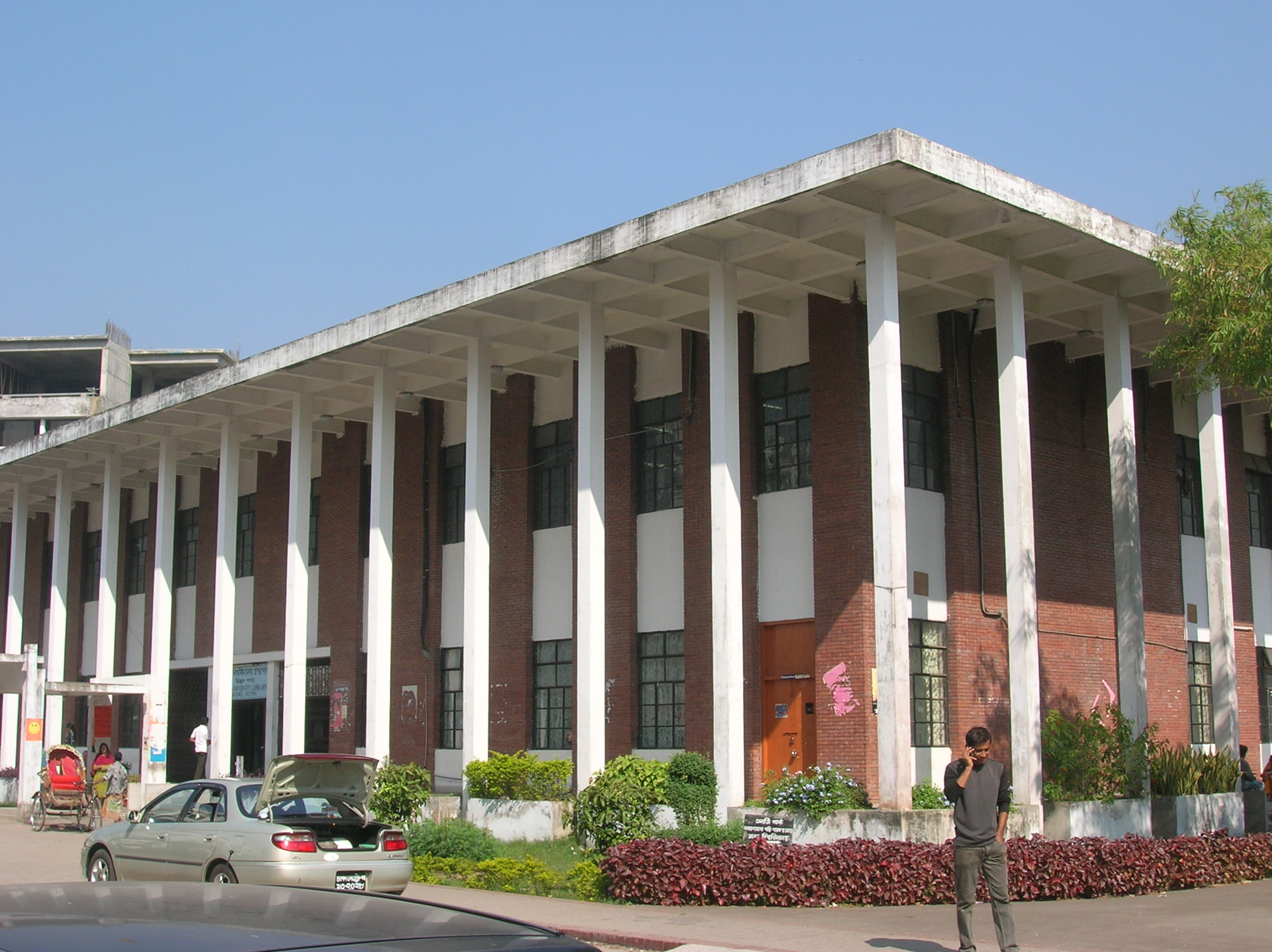 Library(Science section), Dhaka University, Dhaka, Bangladesh.